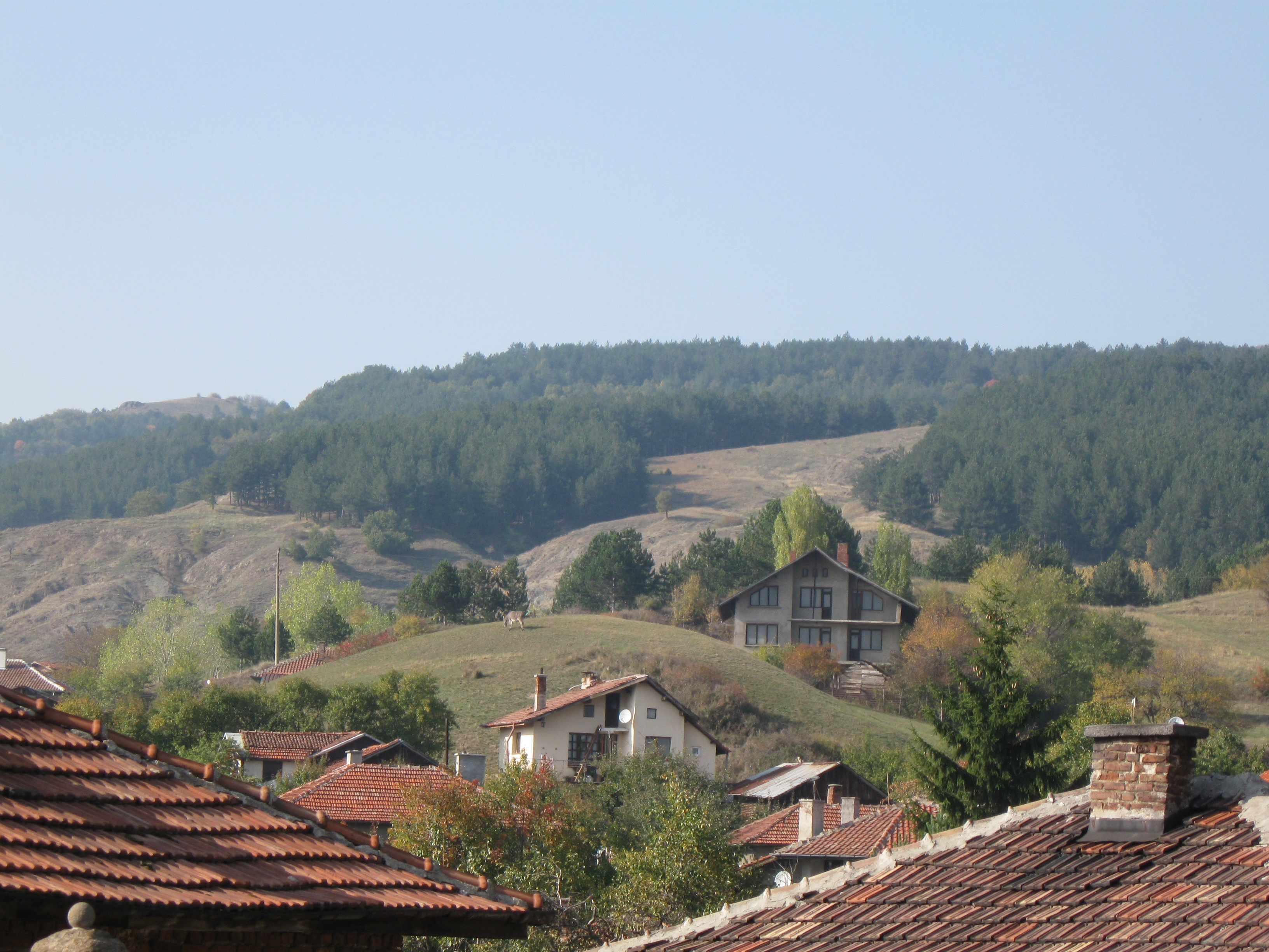 Гледка, villge in Bulgaria